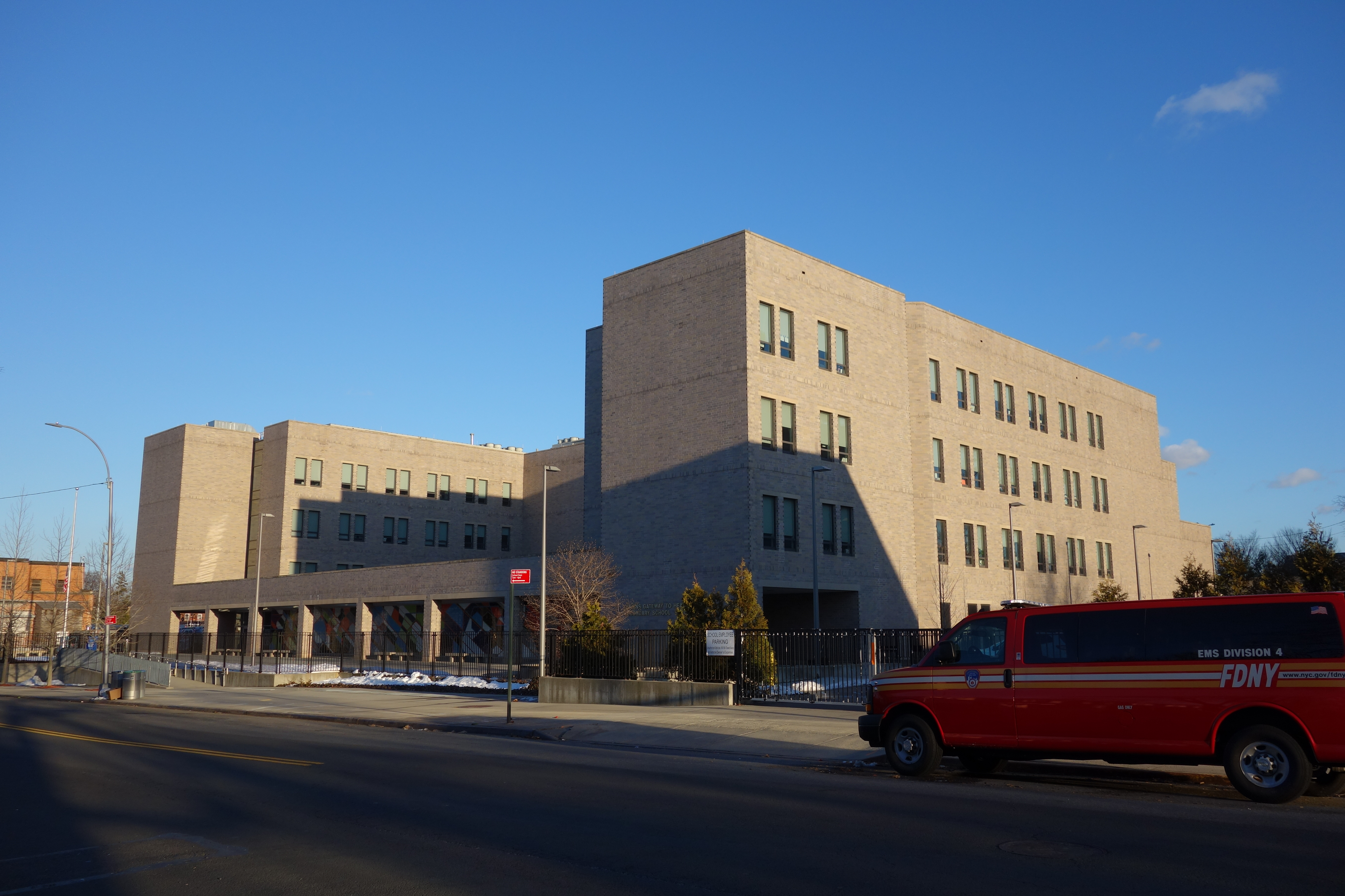 Queens Gateway to Health Sciences Secondary School, looking from across Goethals Avenue at 160th Street in Jamaica, Queens. The school is U-shaped, with the gap in the "U" containing a skylight above the school's first-floor gymnasium.